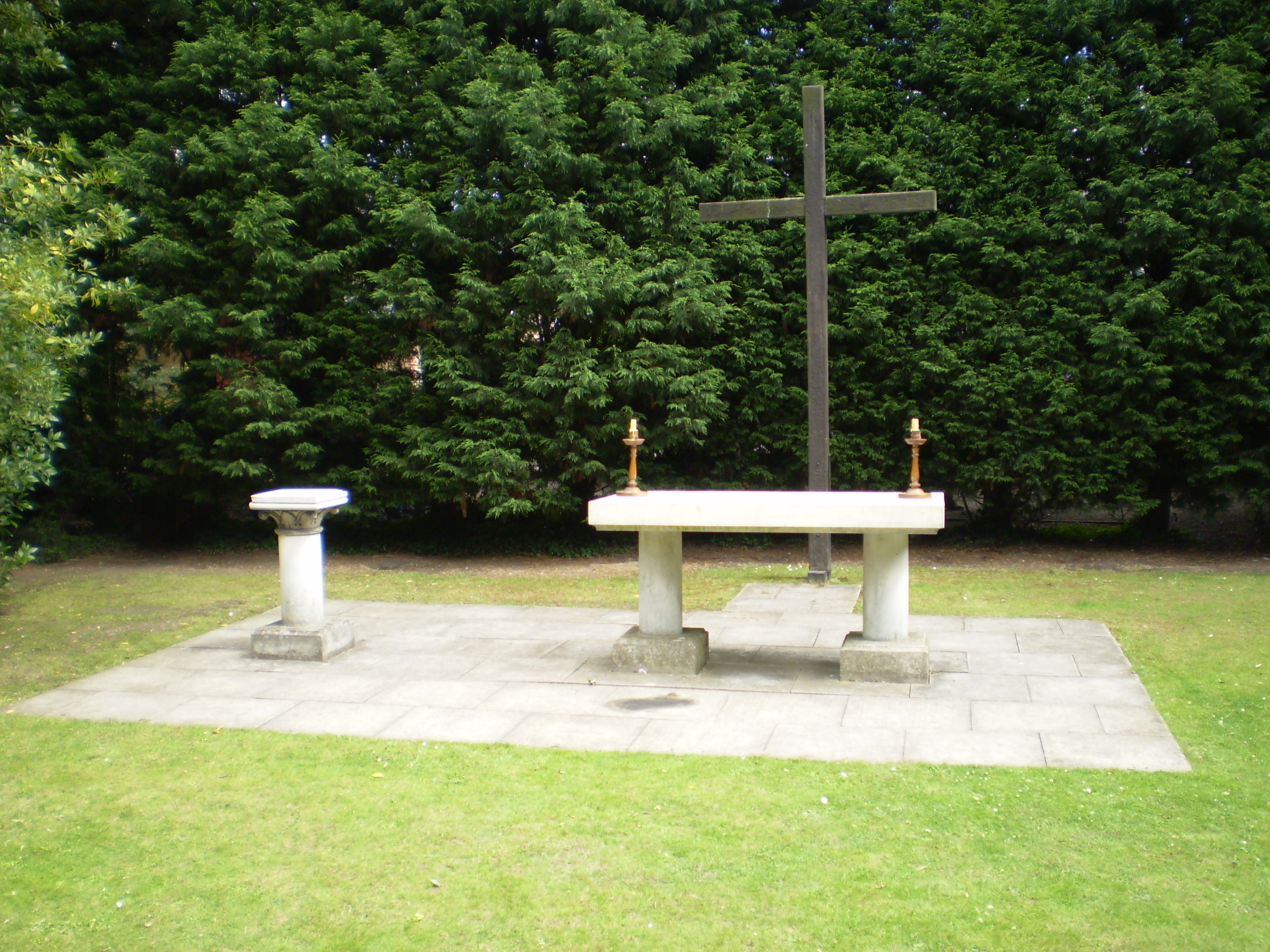 Gilwell Park Discovery at the 21st World Scout Jamboree: religious corner